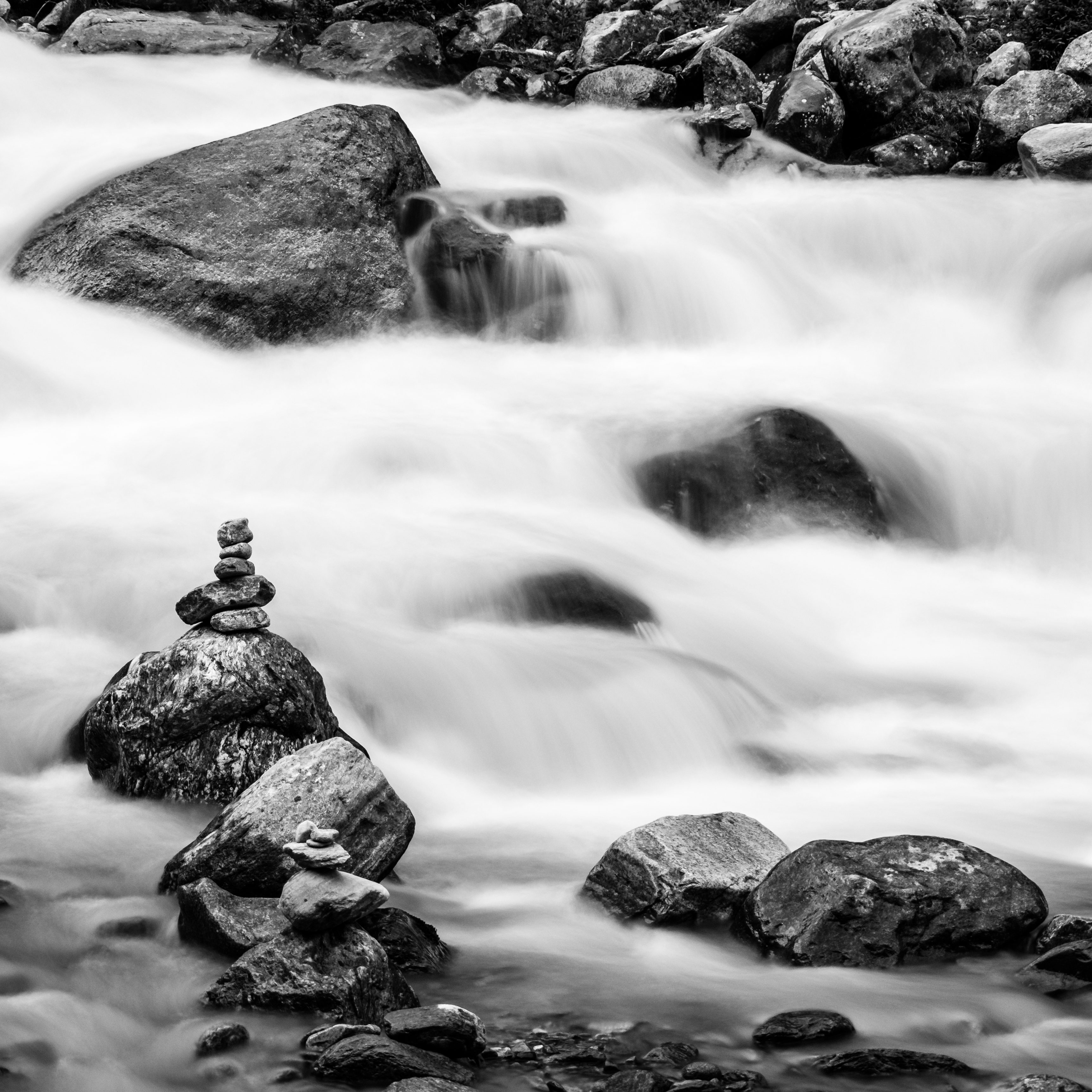 Detail of the Ruetz River near the Grawa Waterfall. Stubai Valley, Innsbruck-Land, Tyrol, Austria